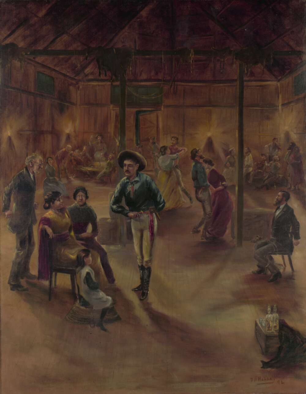 Starlight's hold-up at the dance hall, oil on canvas; 137.3 x 106.7 cm.